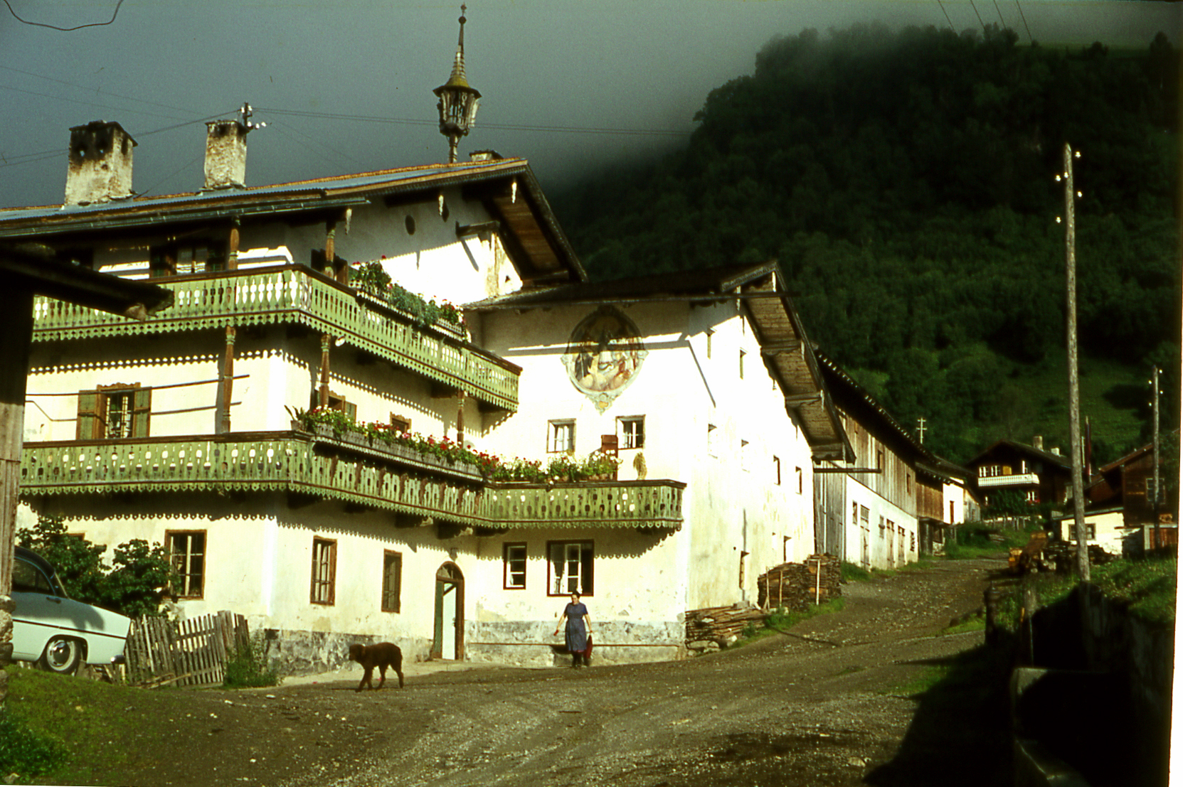 House in Bramberg in 1965